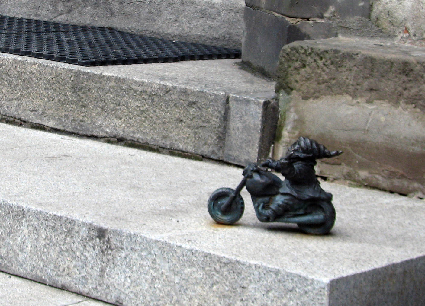 Chopper-dwarf (Motocyklista) from St. Mary Magdalene Church on Szewska 10